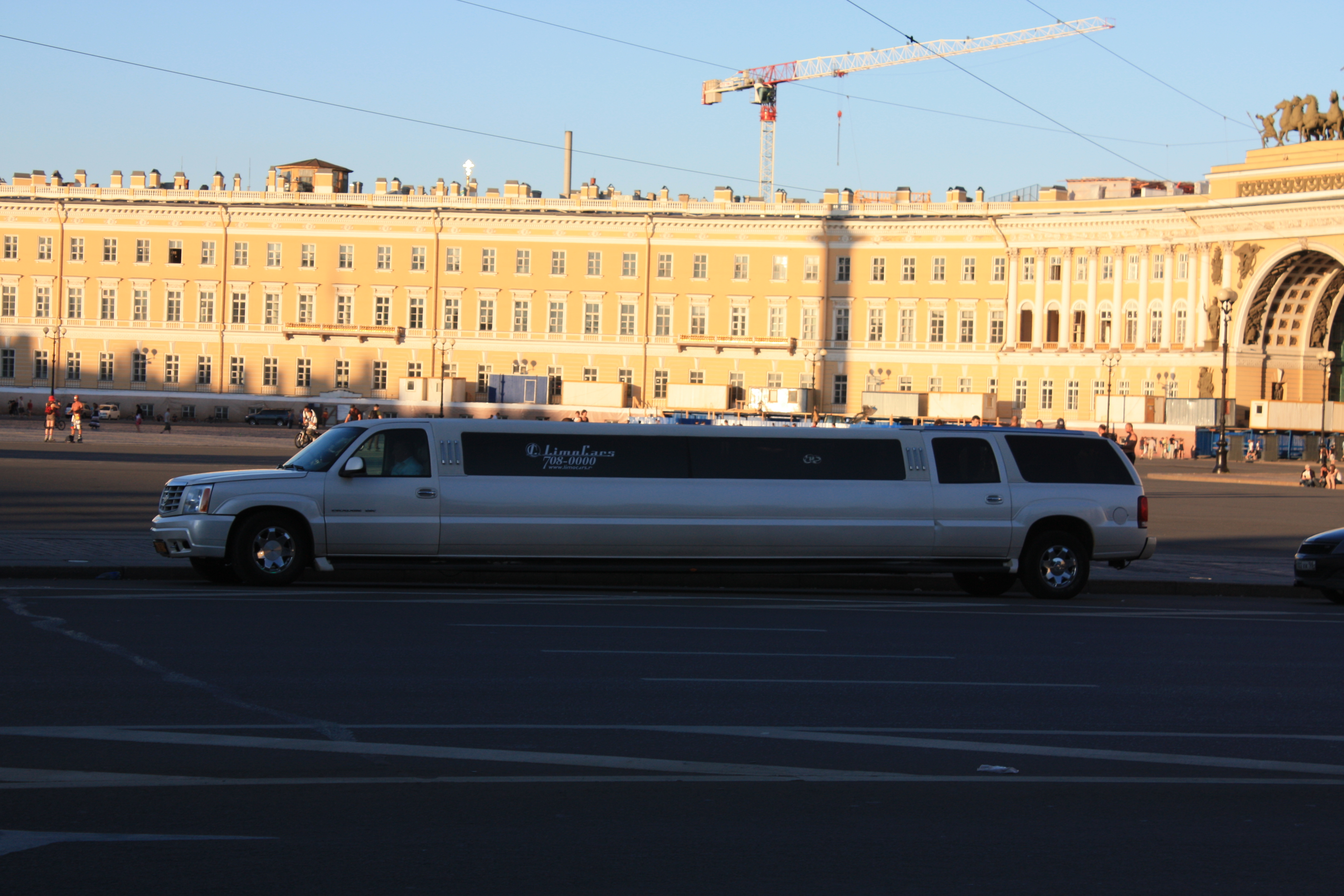 Limousine based on the Cadillac Escalade. St. Petersburg, Nevsky Prospect.